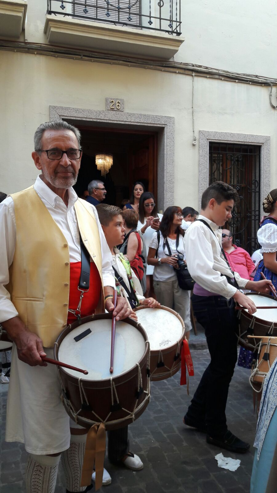 Mare de Déu de la Salut. La Mare de Déu de la Salut Festival is celebrated in September 8, in Alegemesi, Spain and commemorates the legendary discovery in 1247 of a statue depicting the Madonna and Child.